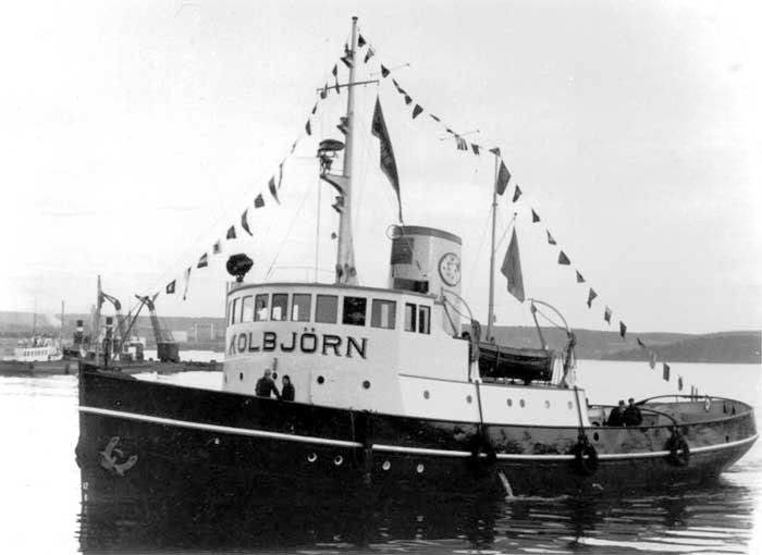 The Swedish tugboat "Kolbjörn"